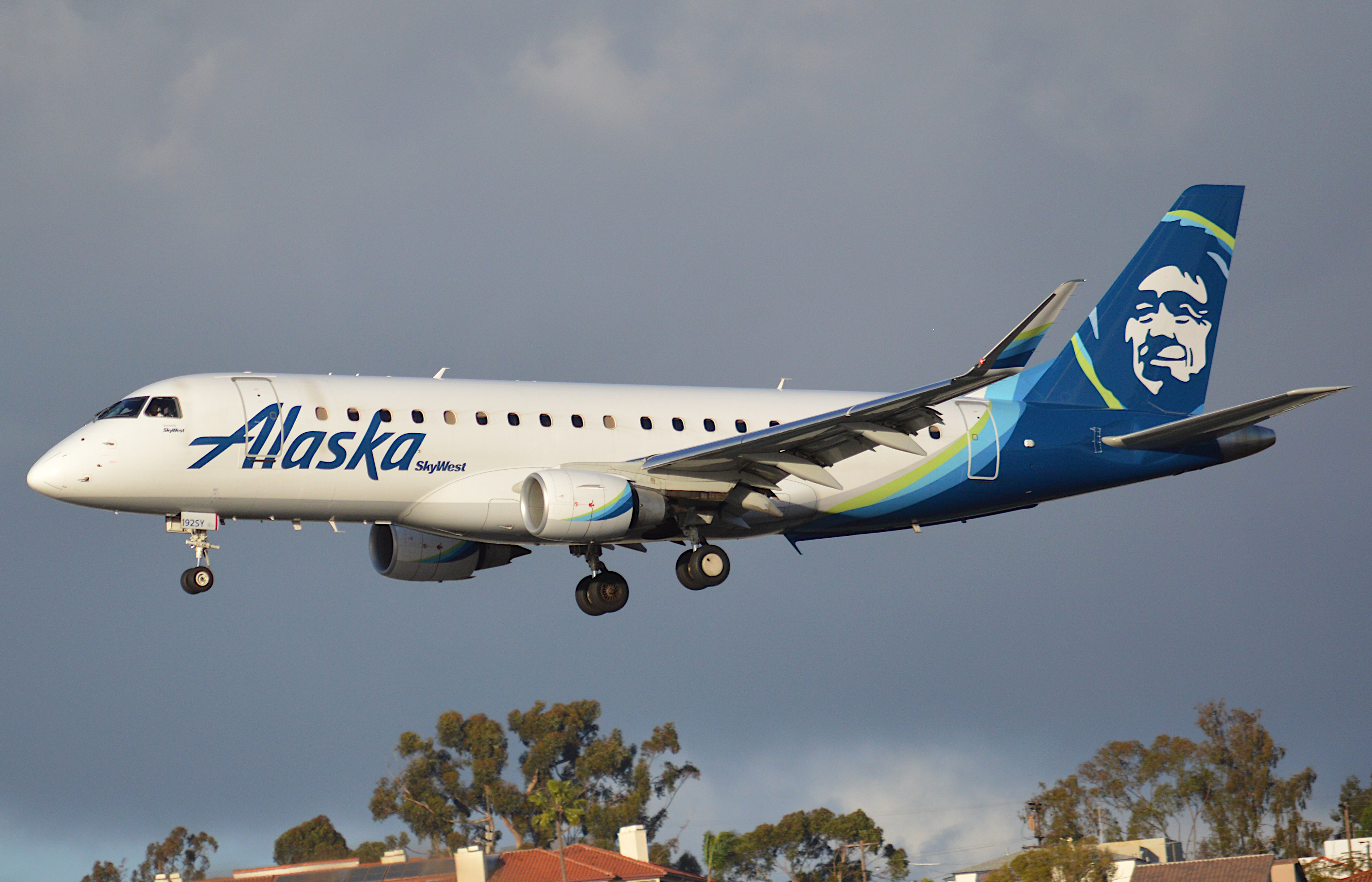 Alaska Airlines (operated by SkyWest) Embraer 175 N192SY landing on runway 27, San Diego Internantional Airport, February 16, 2019.